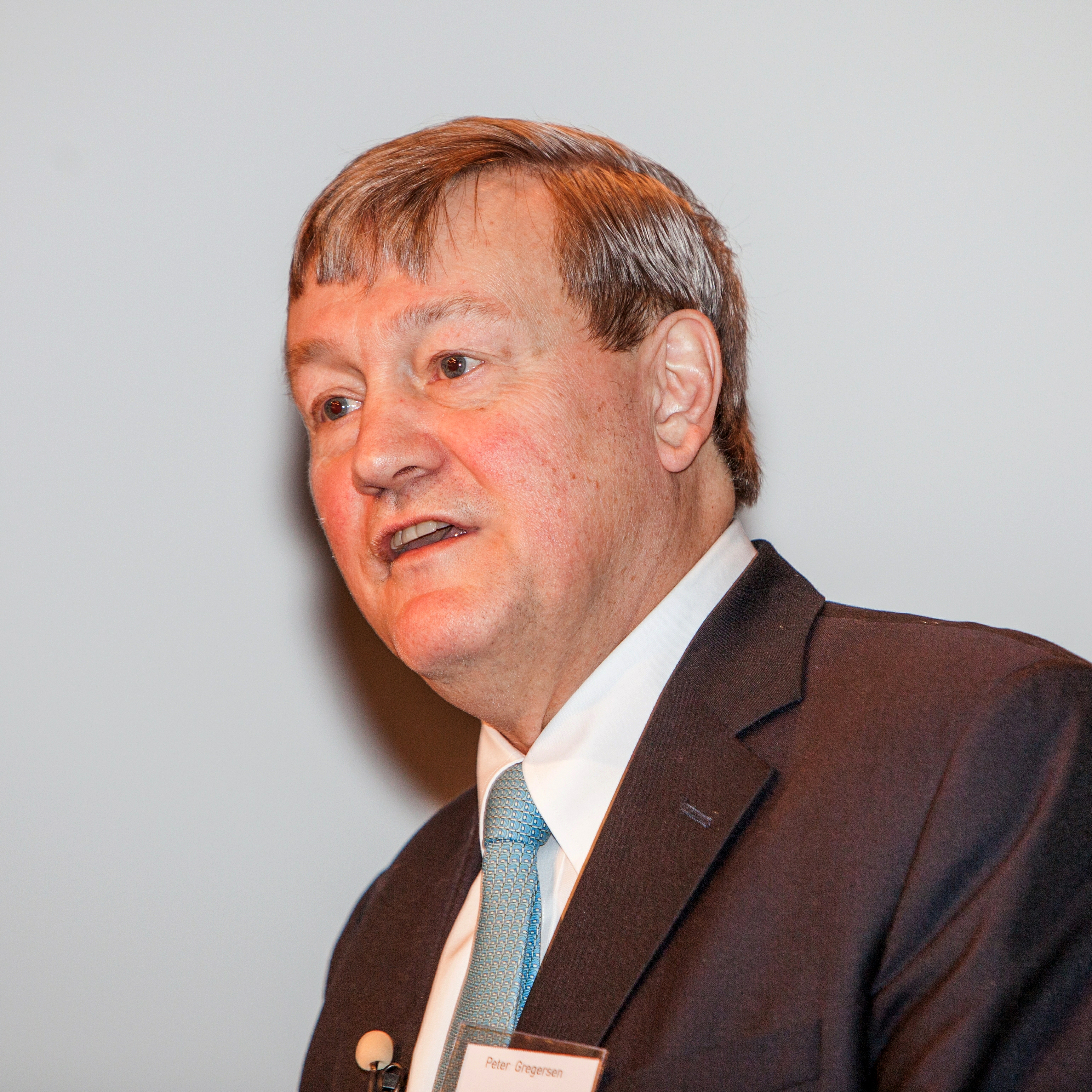 Peter K. Gregersen is one of three Crafoord Prize Laureates in Polyartheritis 2013